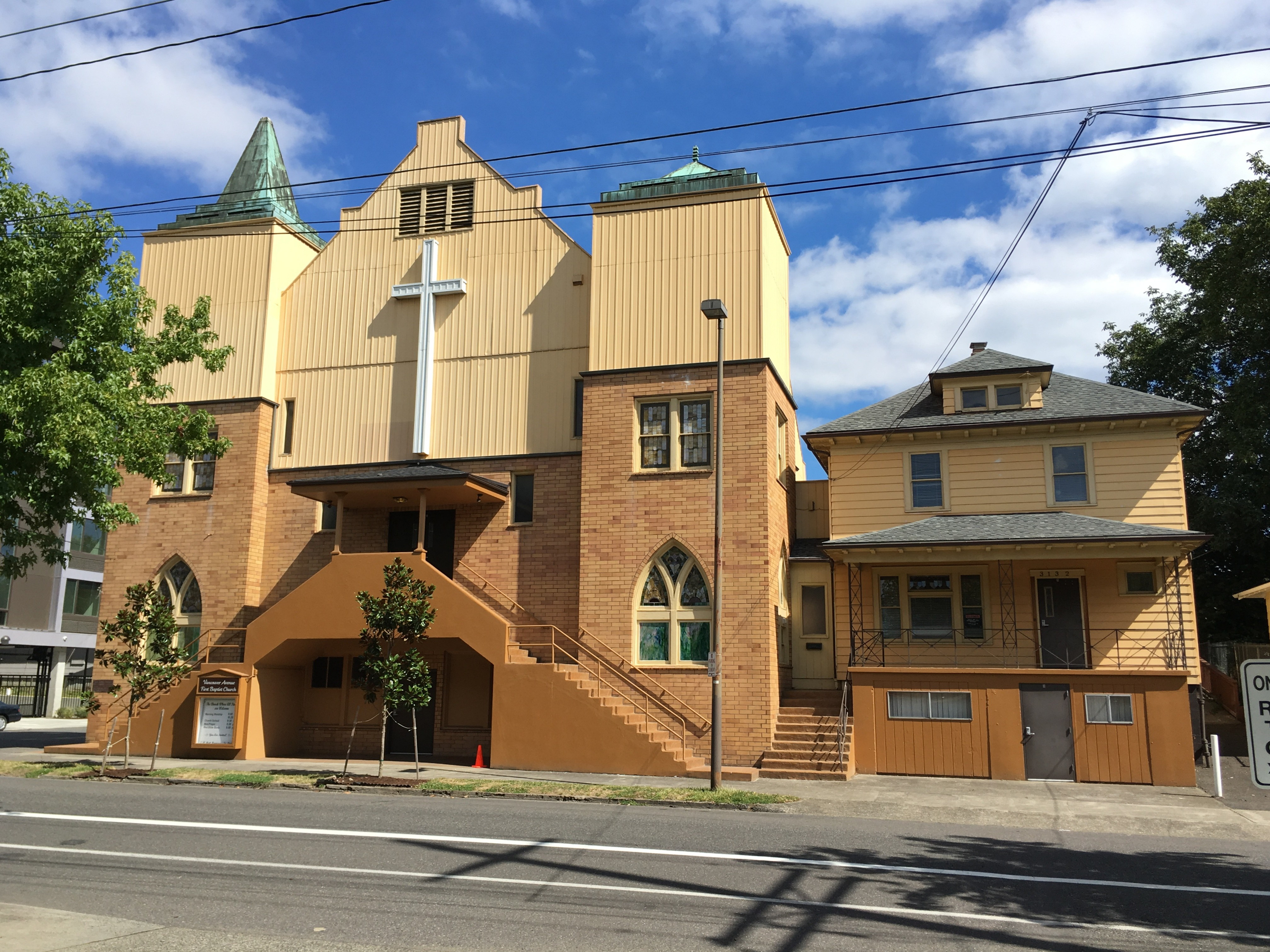 The historic Vancouver Avenue First Baptist Church (built 1909, major remodel 1956), located at 3138 North Vancouver Avenue in Portland, Oregon, United States, is listed on the U.S. National Register of Historic Places.